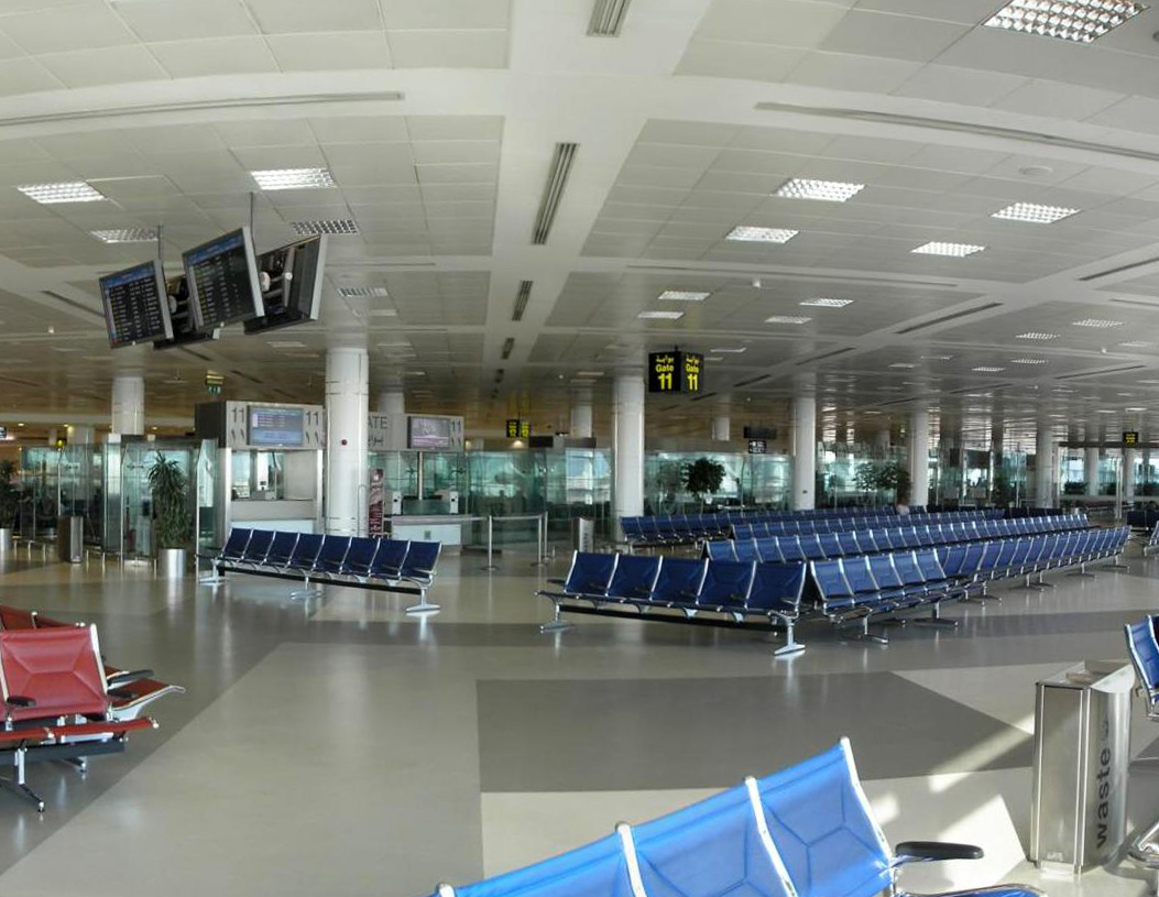 View of the waiting area at Doha International Airport.